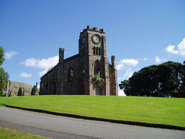 Lennoxtown church. This lovely old church lies at the northern edge of this grid square, Set on its own hilltop with beautiful views and an extensive well kept graveyard it seems a scandal that such a beautiful old building has been left to become a ruin, Does anyone know anything about it?